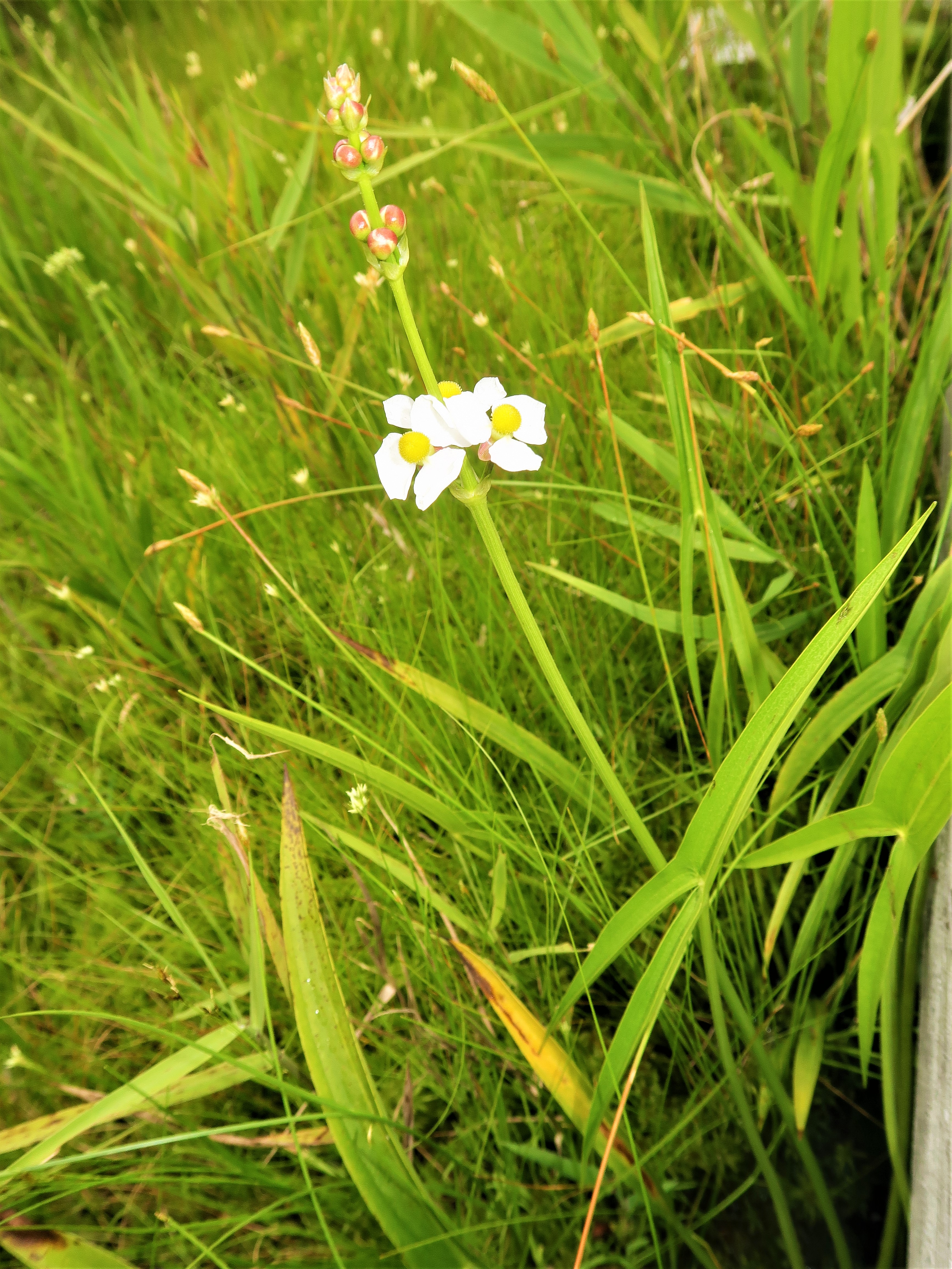 Sagittaria aginashi , Aizu area, Fukushima pref., Japan